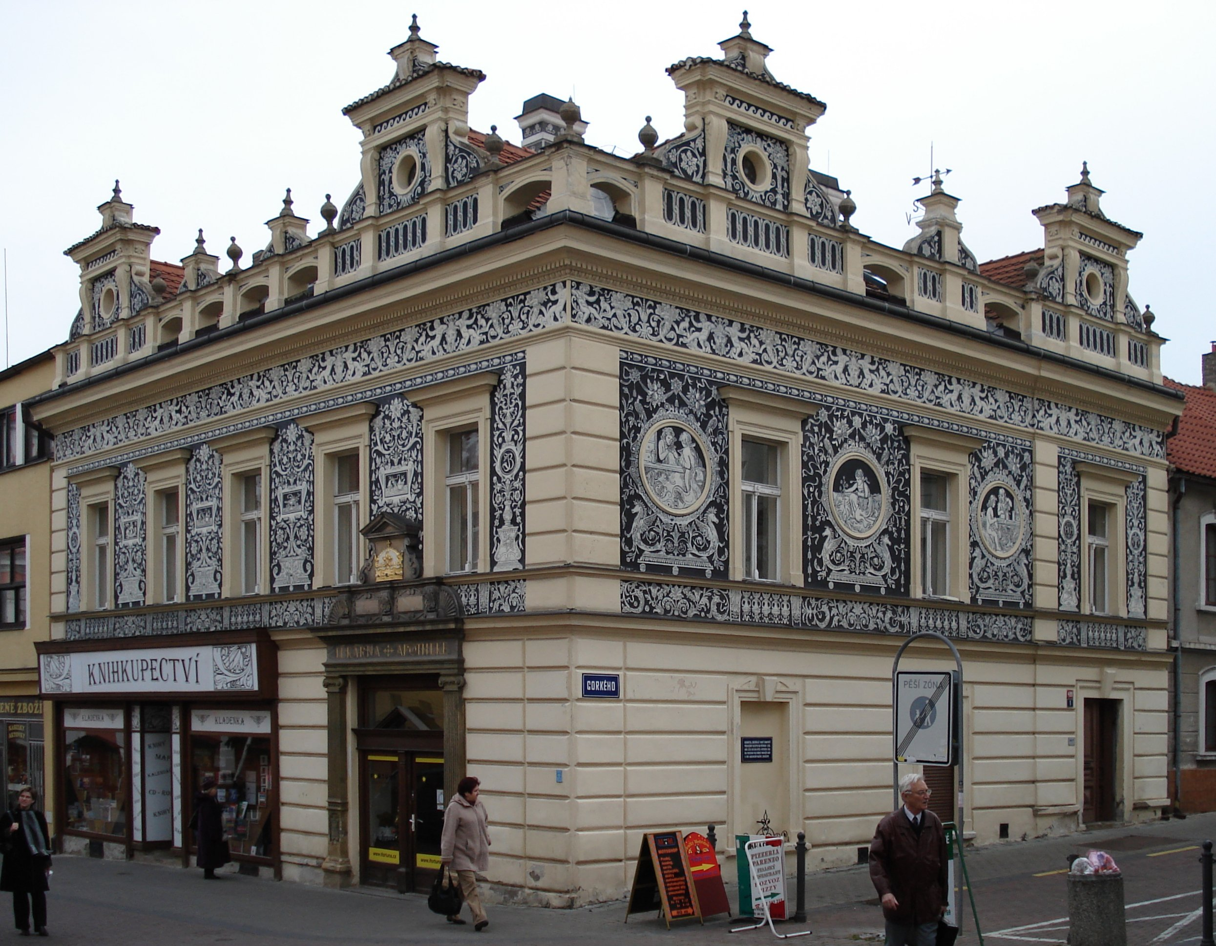 Neo-Renaissance house in Kladno with sgraffito on the facade.